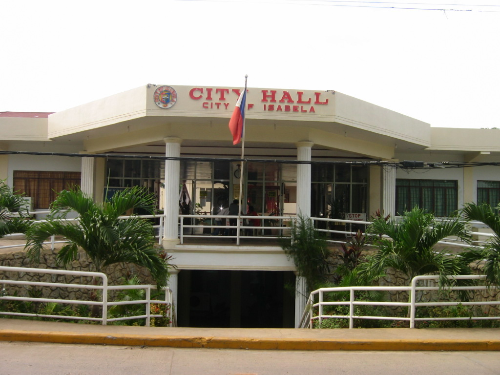 Photo of Isabela City Hall Complex facade